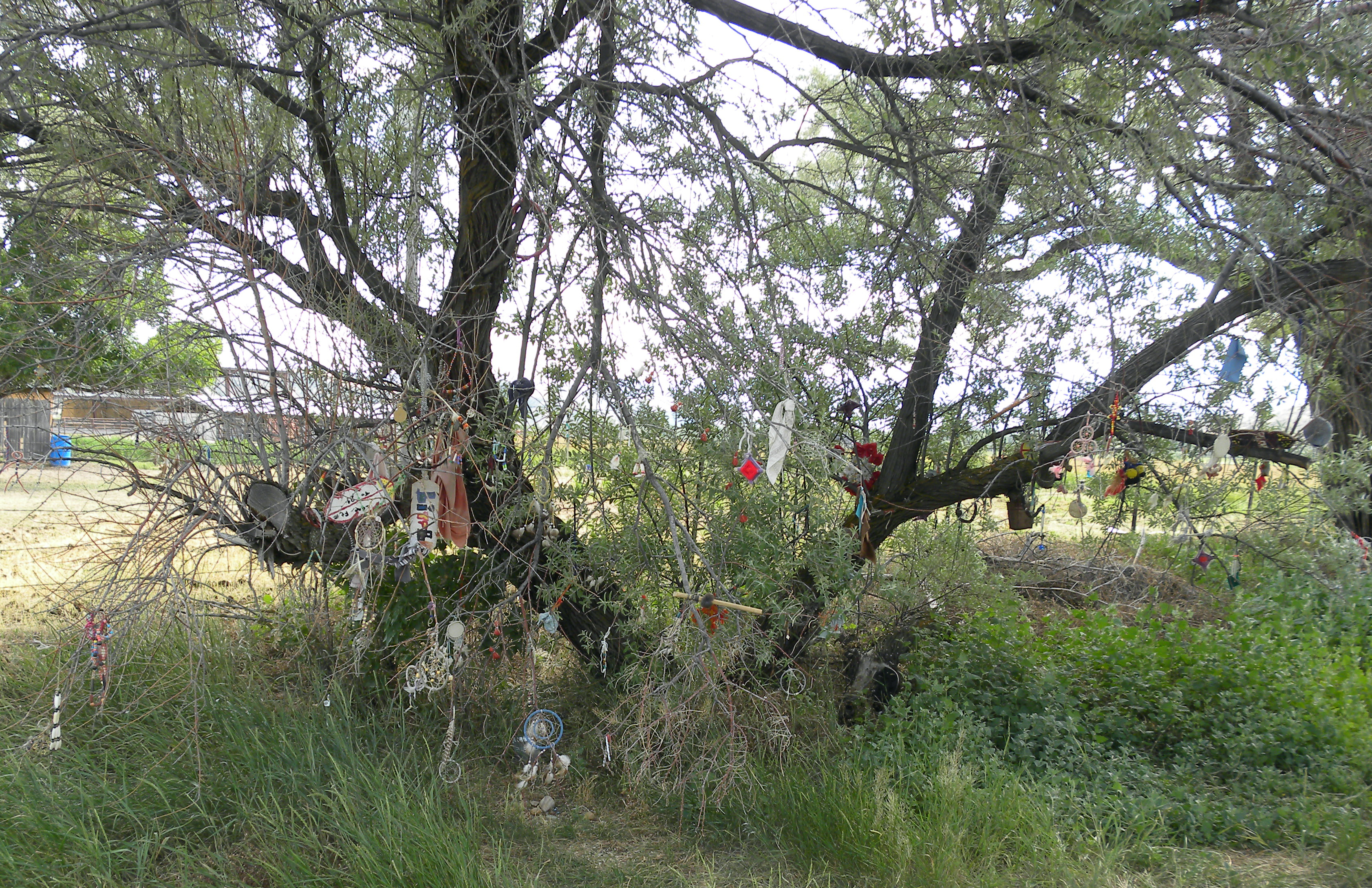 Shoshone prayer tree at Bear River Massacre site near Preston, Idaho.